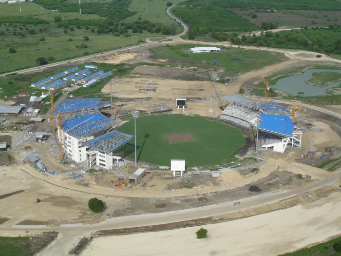 Aerial View of Vivian Richards Stadium in mid October, 2006.